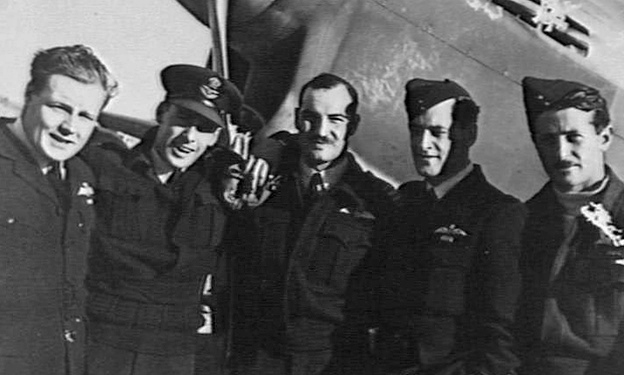 Mildura, Vic. Five RAAF pilots who won the DFC. From left to right, Squadron Leader Keith "Bluey" Truscott of No. 452 Squadron, Squadron Leader P. Jeffrey of No. 3 Squadron, Flight Lieutenant A.C. Rawlinson of No. 3 Squadron, Squadron Leader F. Fischer of No. 3 Squadron, and Flight Lieutenant C.W. Wawn of No. 452 Squadron. Truscott and Wawn were undergoing a conversion course to Kittyhawk aircraft at No. 2 (Fighter) Operational Training Unit, RAAF Station Mildura, after their return from the UK where they were flying Supermarine Spitfire aircraft.